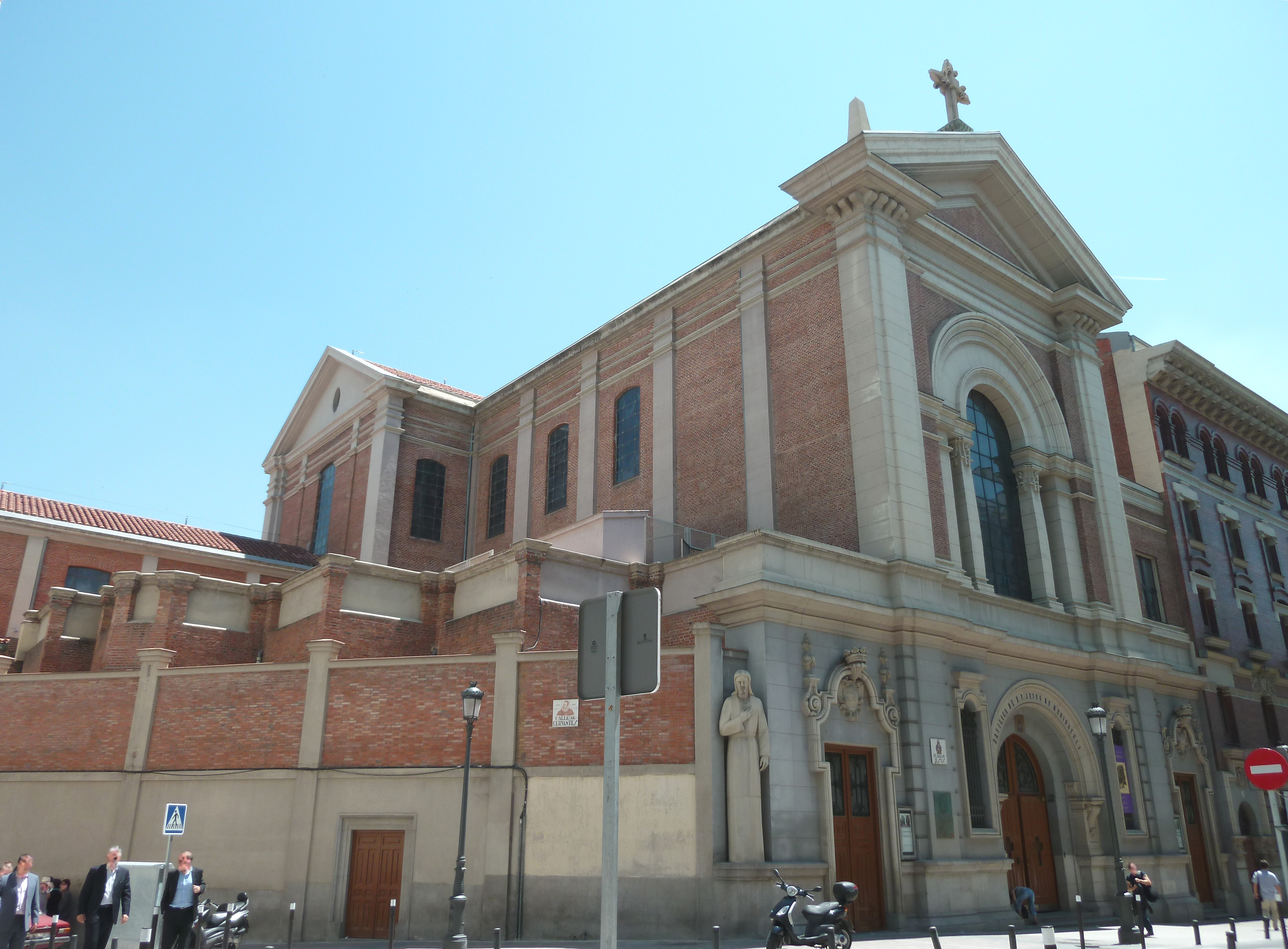 Façade of Basílica de Jesús de Medinaceli in Madrid (Spain).